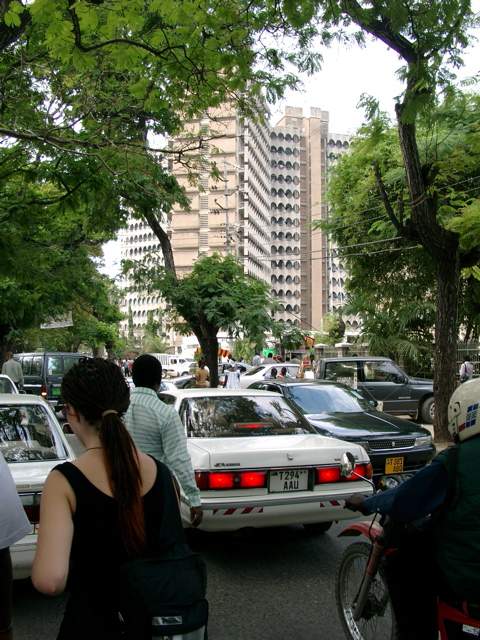 Samora Machel Avenue with the N.I.C. House in the background in Dar-es-Salaam, Tanzania